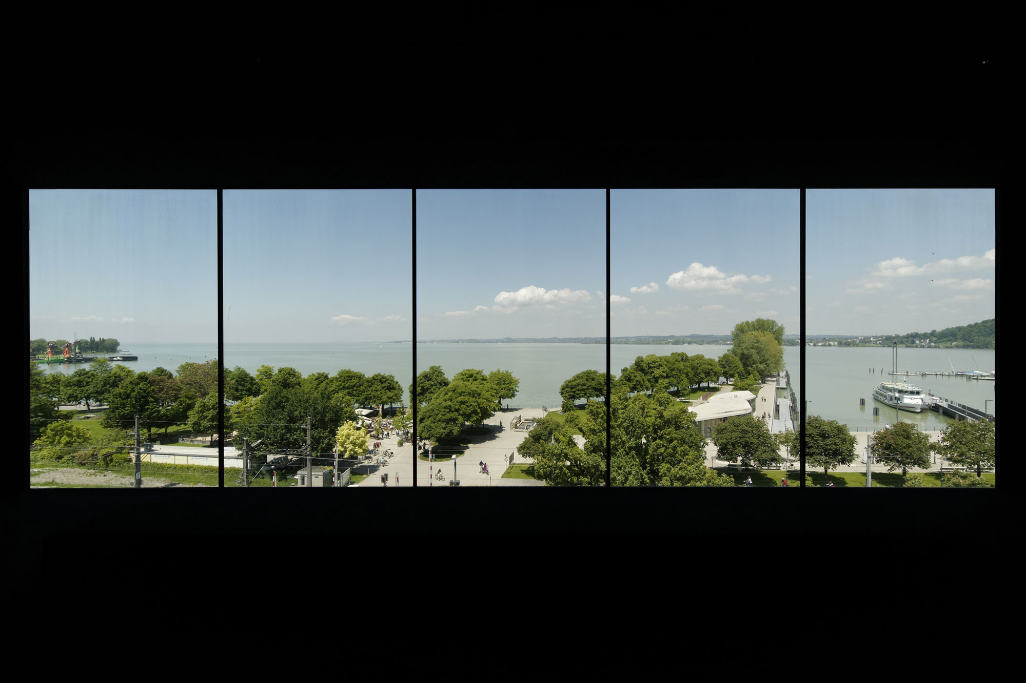 Panoramaraum ©HanspeterSchiess